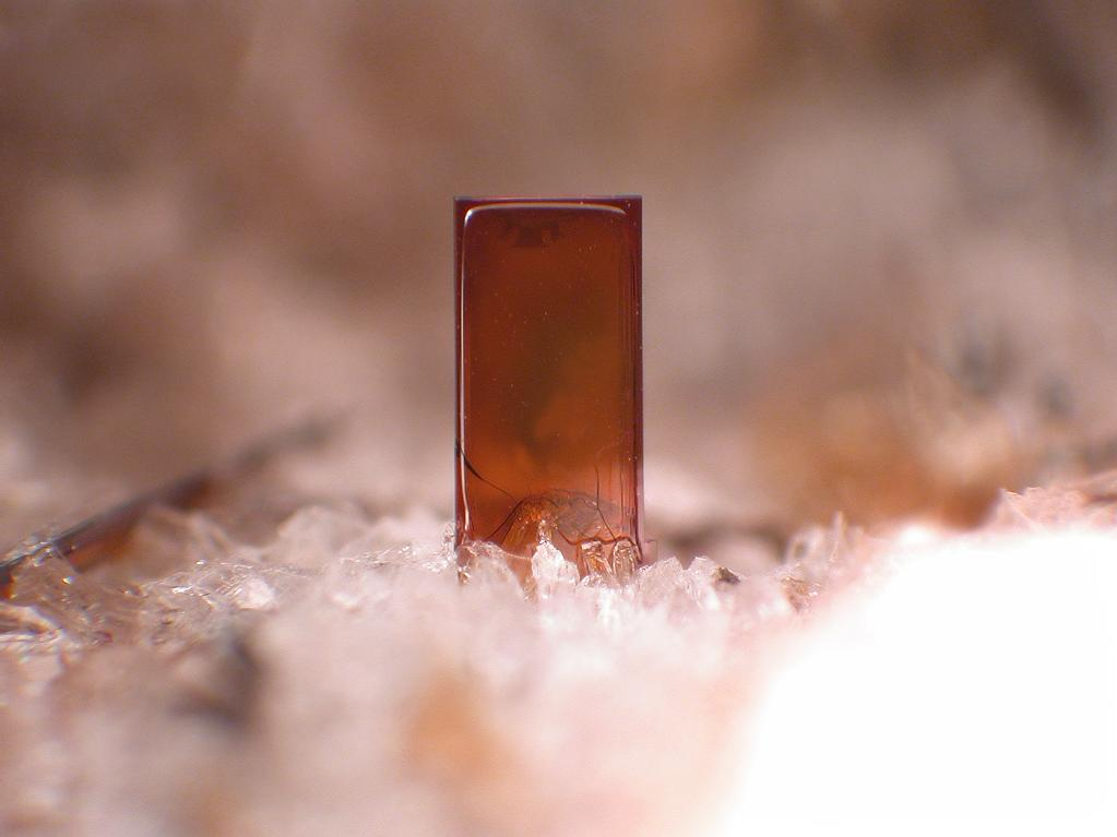 A thin brown Pseudobrookite tabular, 0,8mm. - Locality: Wannenköpfe, Ochtendung, Eifel region, Germany